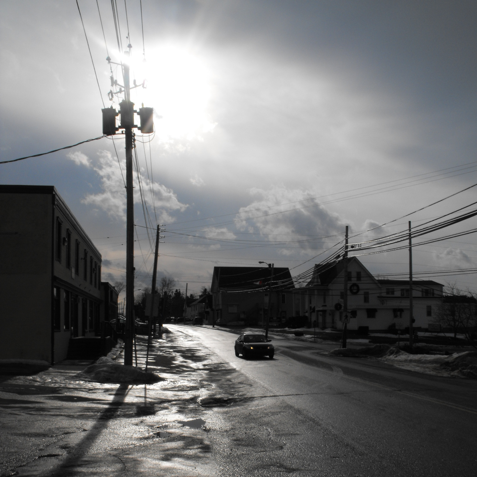 Main street in Shubenacadie, Winter 2009